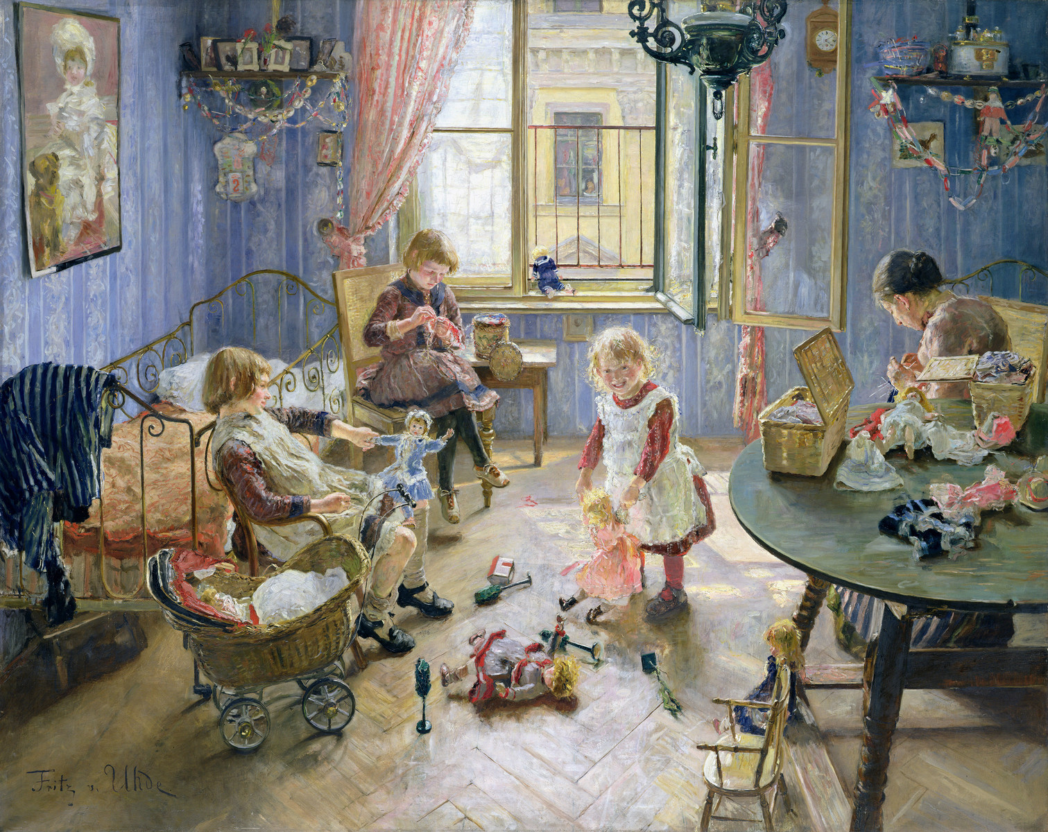 Three young girls play and sew, supervised by their mother who is knitting